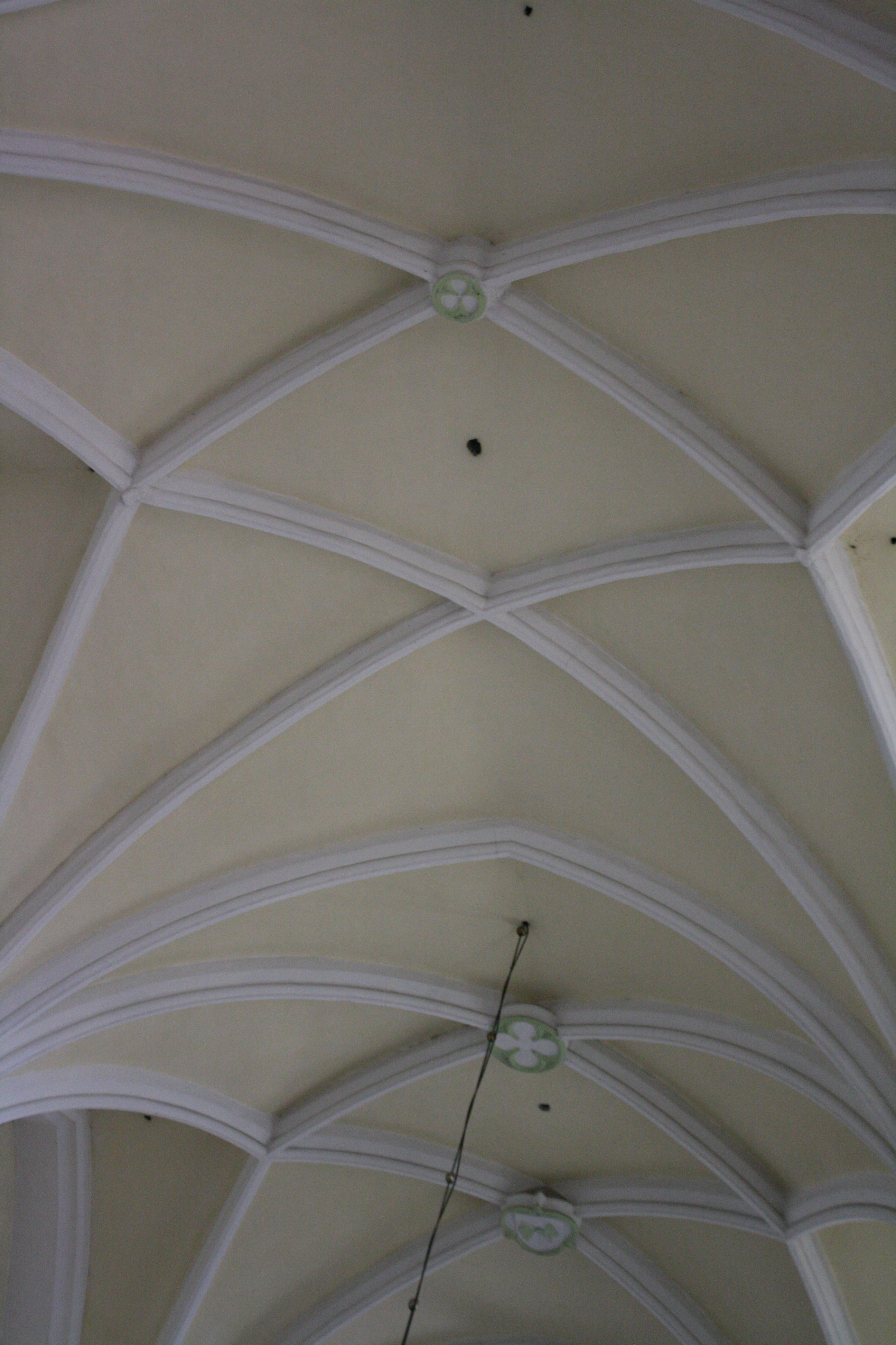 Borovany, Church of the Visitation of Our Lady